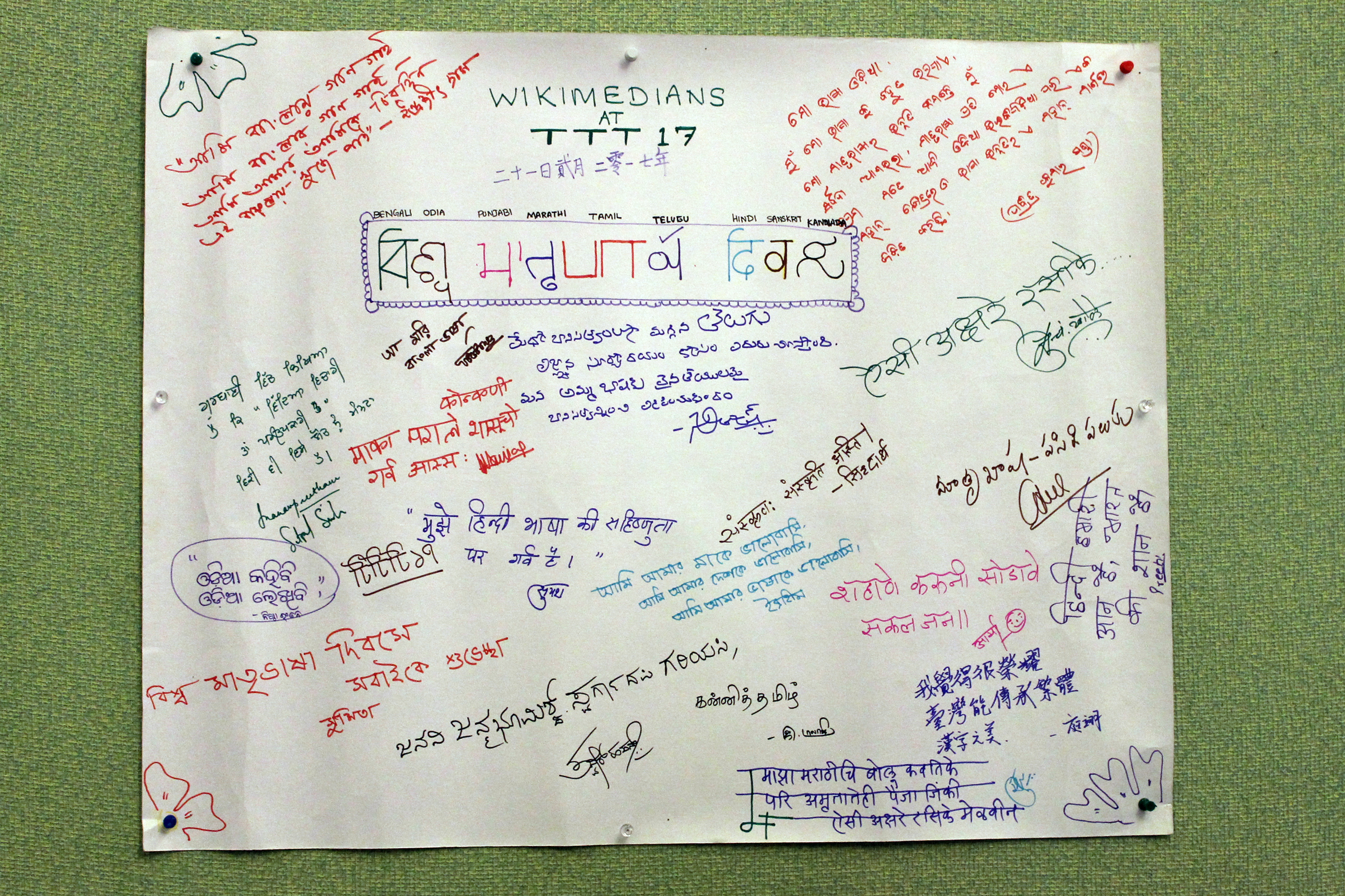 CIS-A2K TTT 2017 participants and presentations at Bangalore